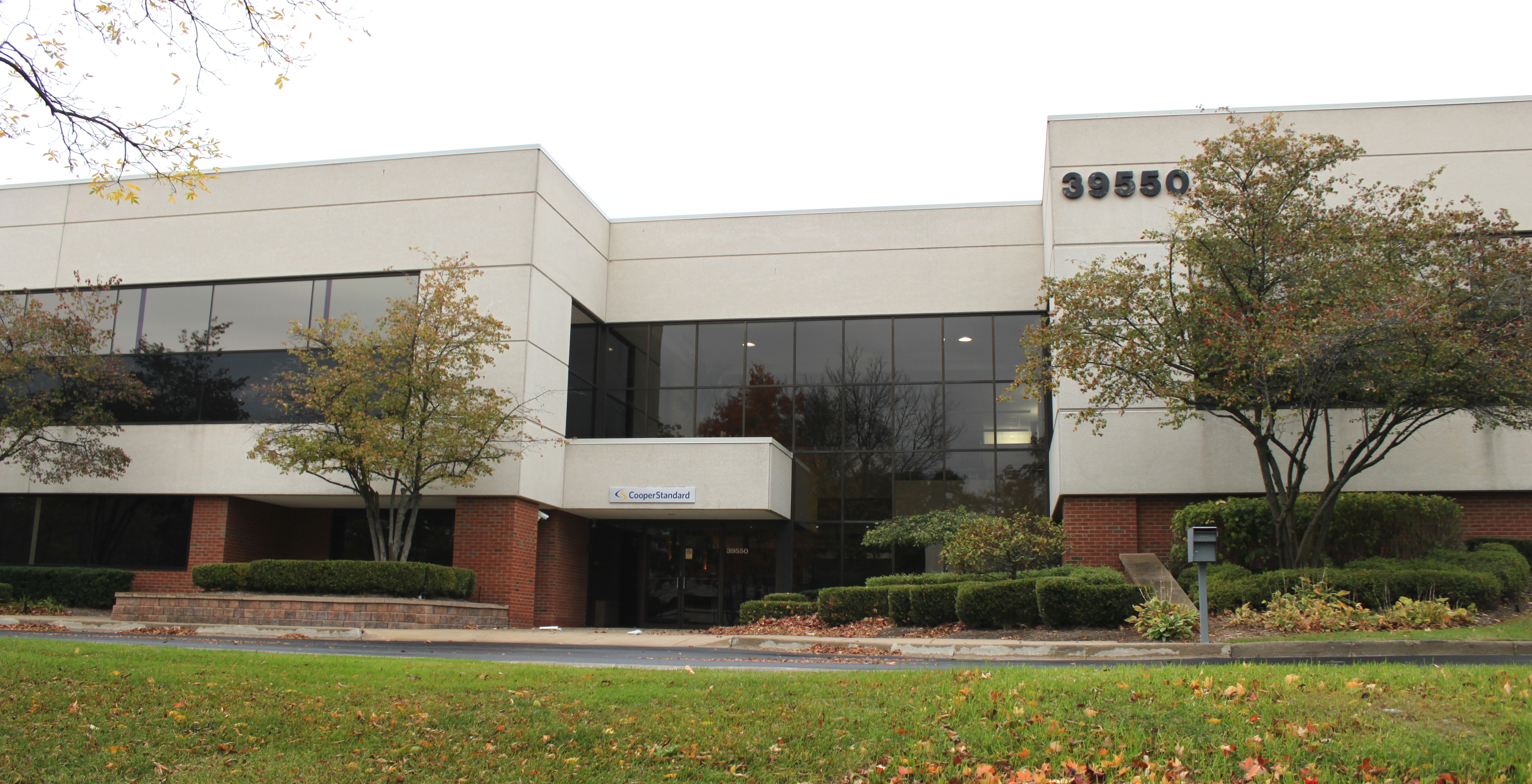 Cooper-Standard Automotive, Inc. headquarters building, 39550 Orchard Hill Place, Novi, Michigan.